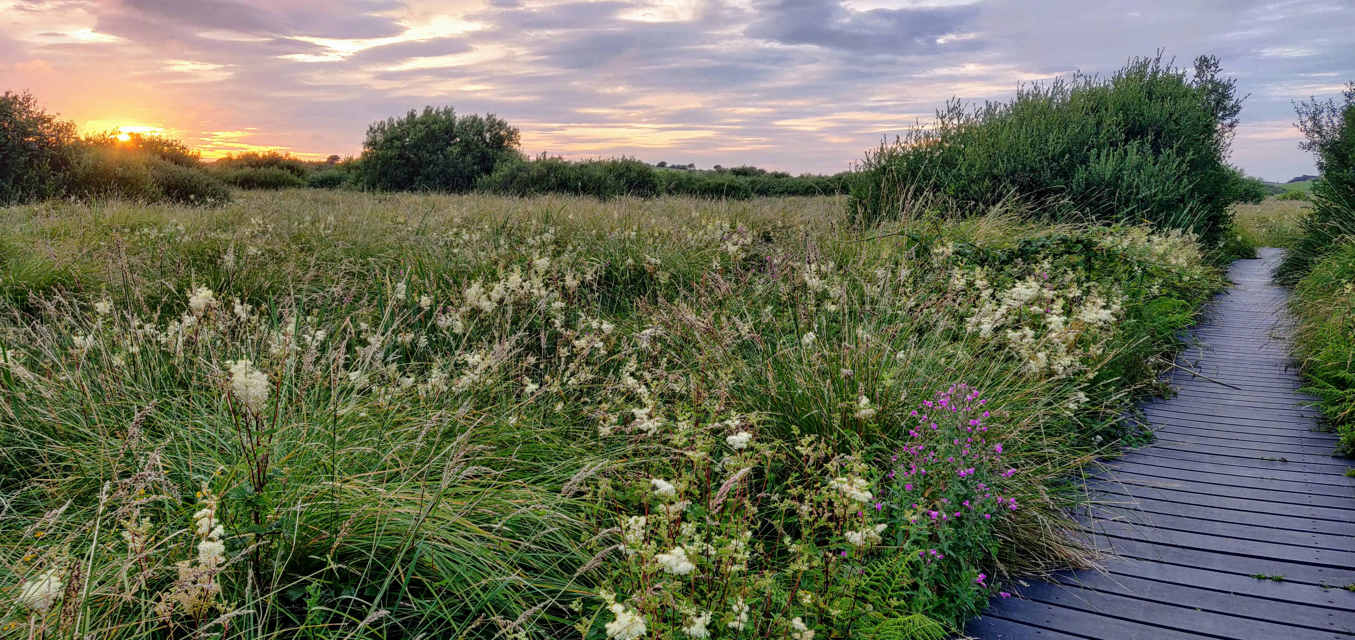 This is an image of Fenor Bog in Co Waterford, Ireland at sunset in summer. The image includes the boardwalk which tracks through the variety of the habitats present on the fen.